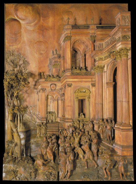 Decorative woodcarving depicting the Stoning of St Stephen by Grinling Gibbons. After Gibbon's death it was bought in the sale of the artist's personal effects by James Brydges, 1st Duke of Chandos for his house Cannons.